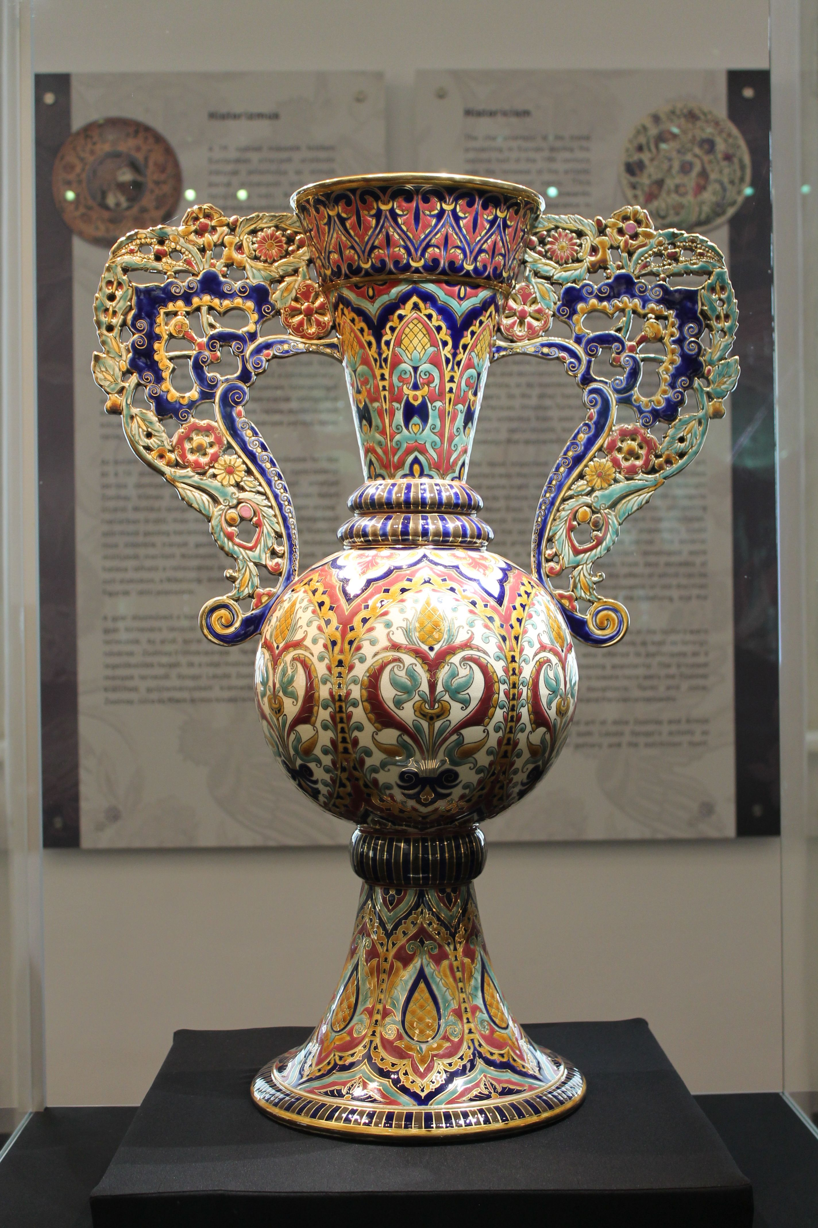 Monumental Alhambra vase from the Gyugyi Collection, exhibited in the Zsolnay Cultural Quarter, Pécs, Hungary. Designer: Tádé Sikorski, 1884